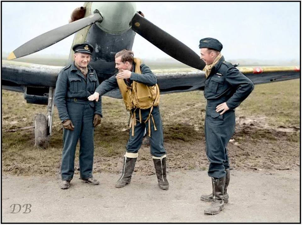 Colour image (photo) of Flight Lieutenant John Pattison of No. 485 (NZ) Squadron RAF, graphically recounts a combat to Squadron Leader Reginald Grant, and Flight Lieutenant Reginald Baker (‘A’ Flight Commander), in front of a Spitfire Mk Vb at RAF Westhampnett, West Sussex.